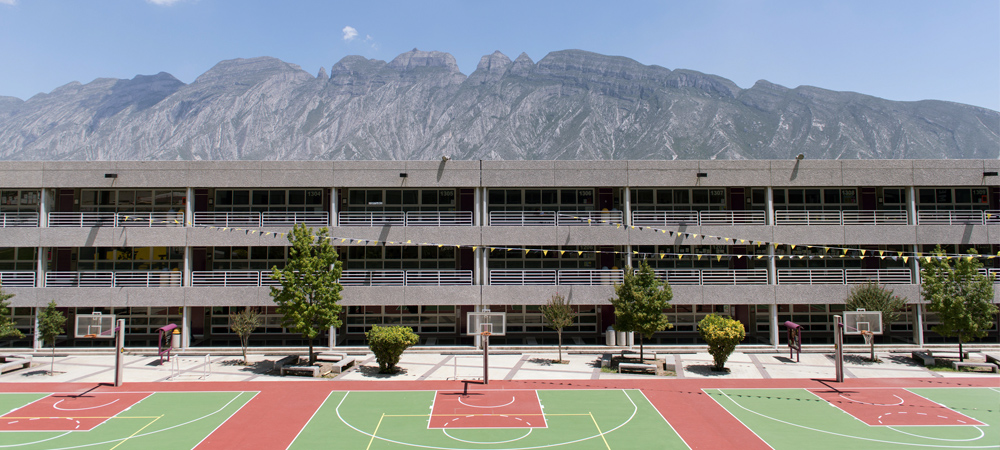 Panorámica de la Preparatoria UDEM Unidad San Pedro